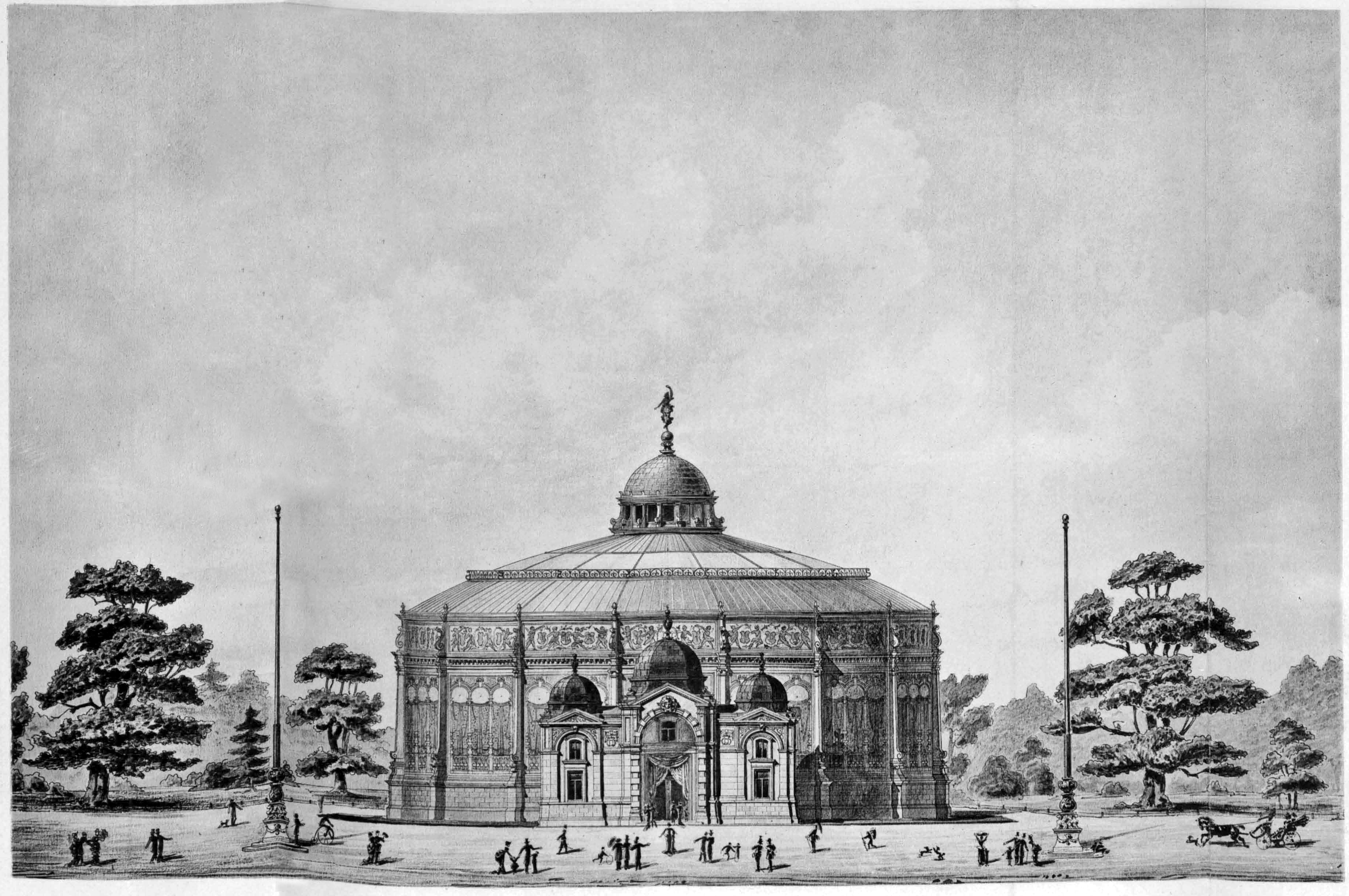 Vienna, Prater, Panoramabau (last cinema Busch)